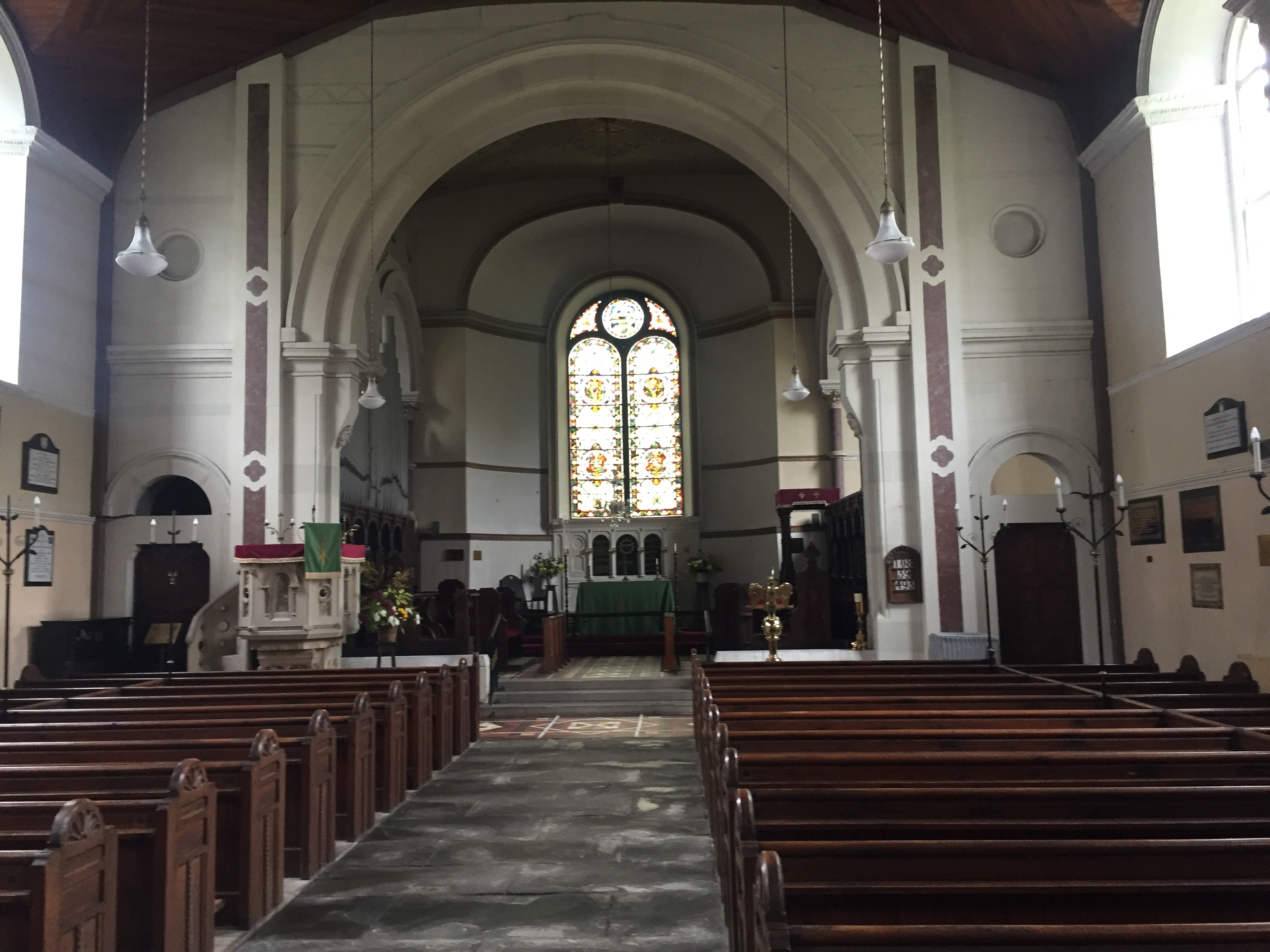 Interior Picture cashel cathedral 2017 pre restoration work